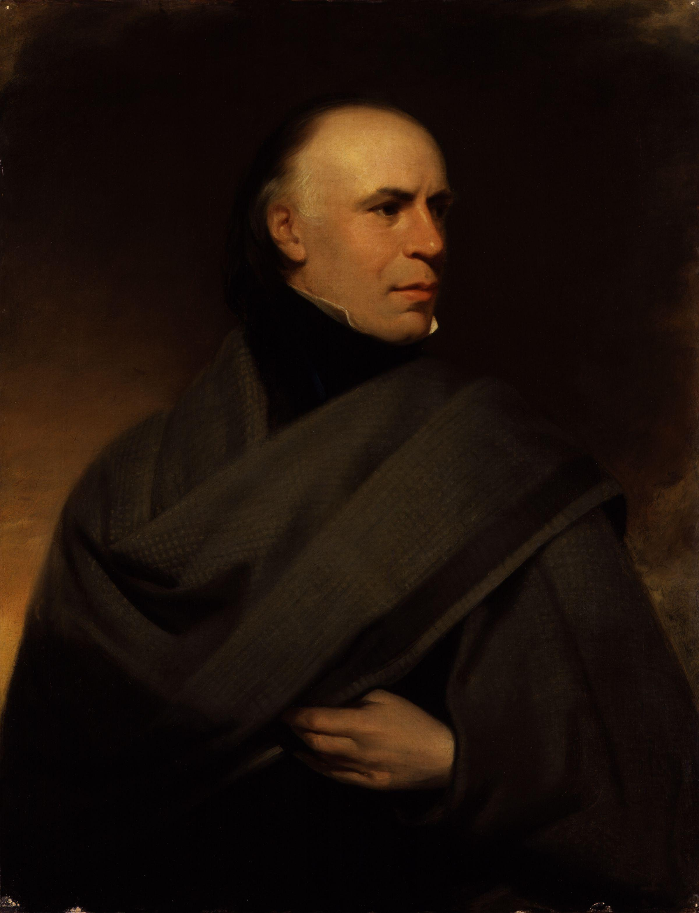 Allan Cunningham, by Henry Room (died 1850). All images in this batch have been confirmed as author died before 1939 according to the official death date listed by the NPG.